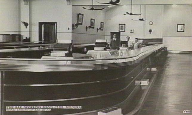 Mildura Working Man's Club, Mildura, Victoria, Australia. (1945) Length of bar was 287ft.